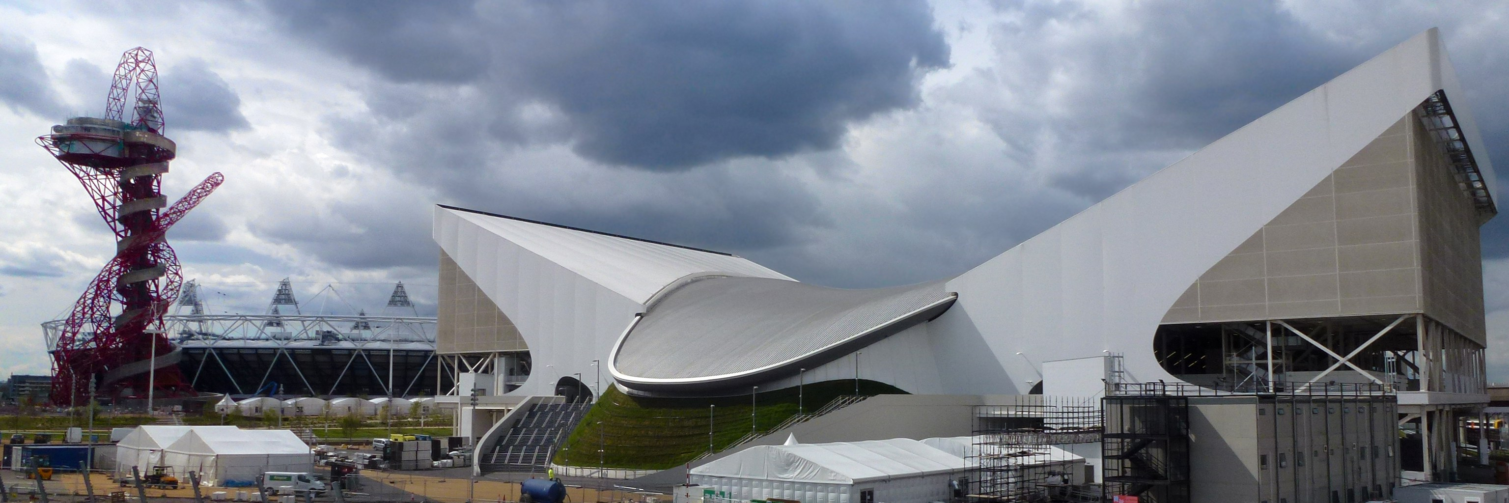 Construction of Olympic Park, London — (04-22-2012). Exterior view of London Aquatics Centre with ArcelorMittal Orbit and the Olympic Stadium in the background.